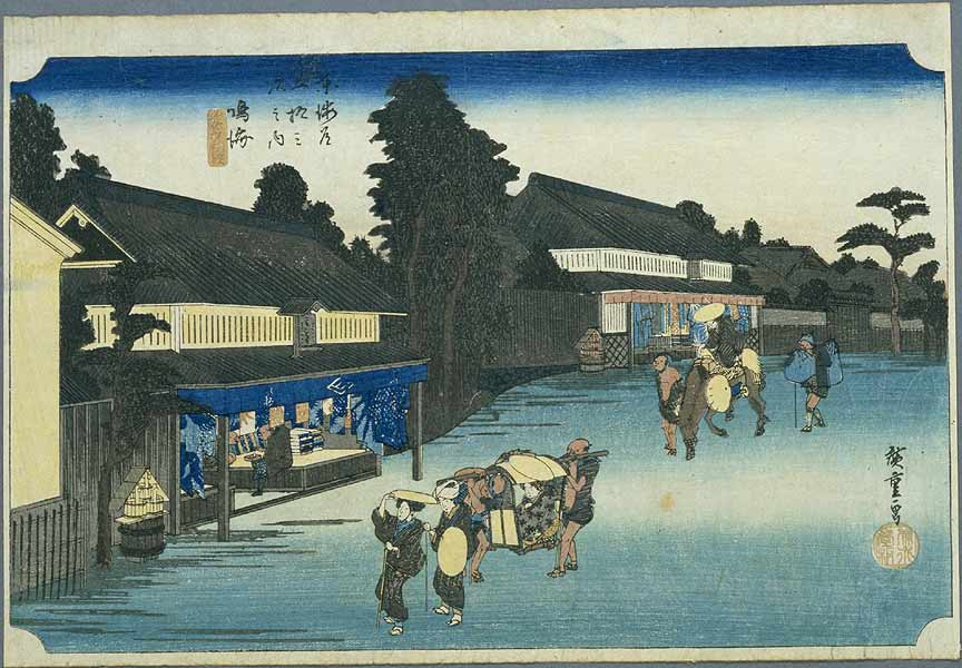 Narumi on the Tokaido, ukiyo-e prints by Hiroshige